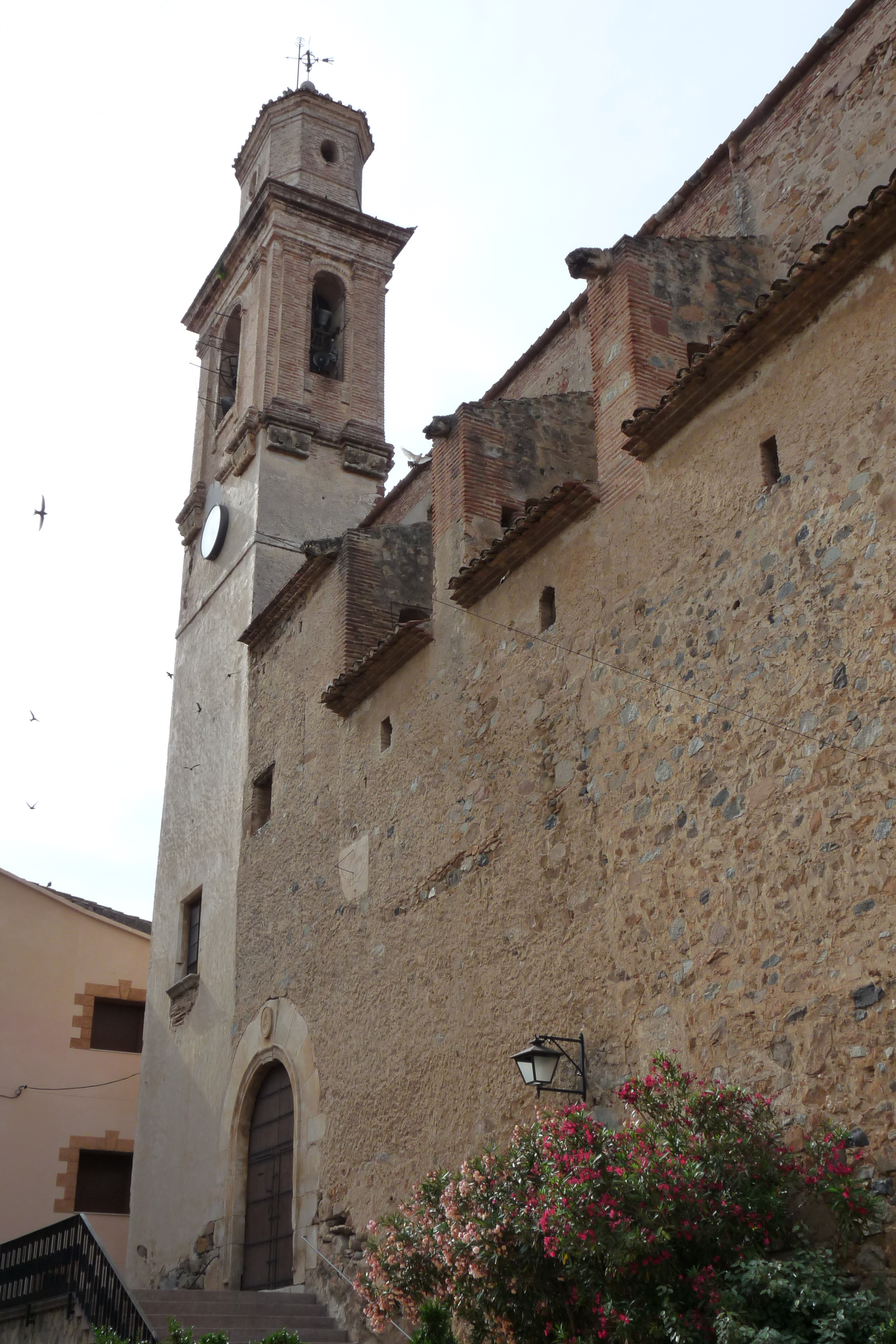 Church of Sant Llorenç, Botarell.